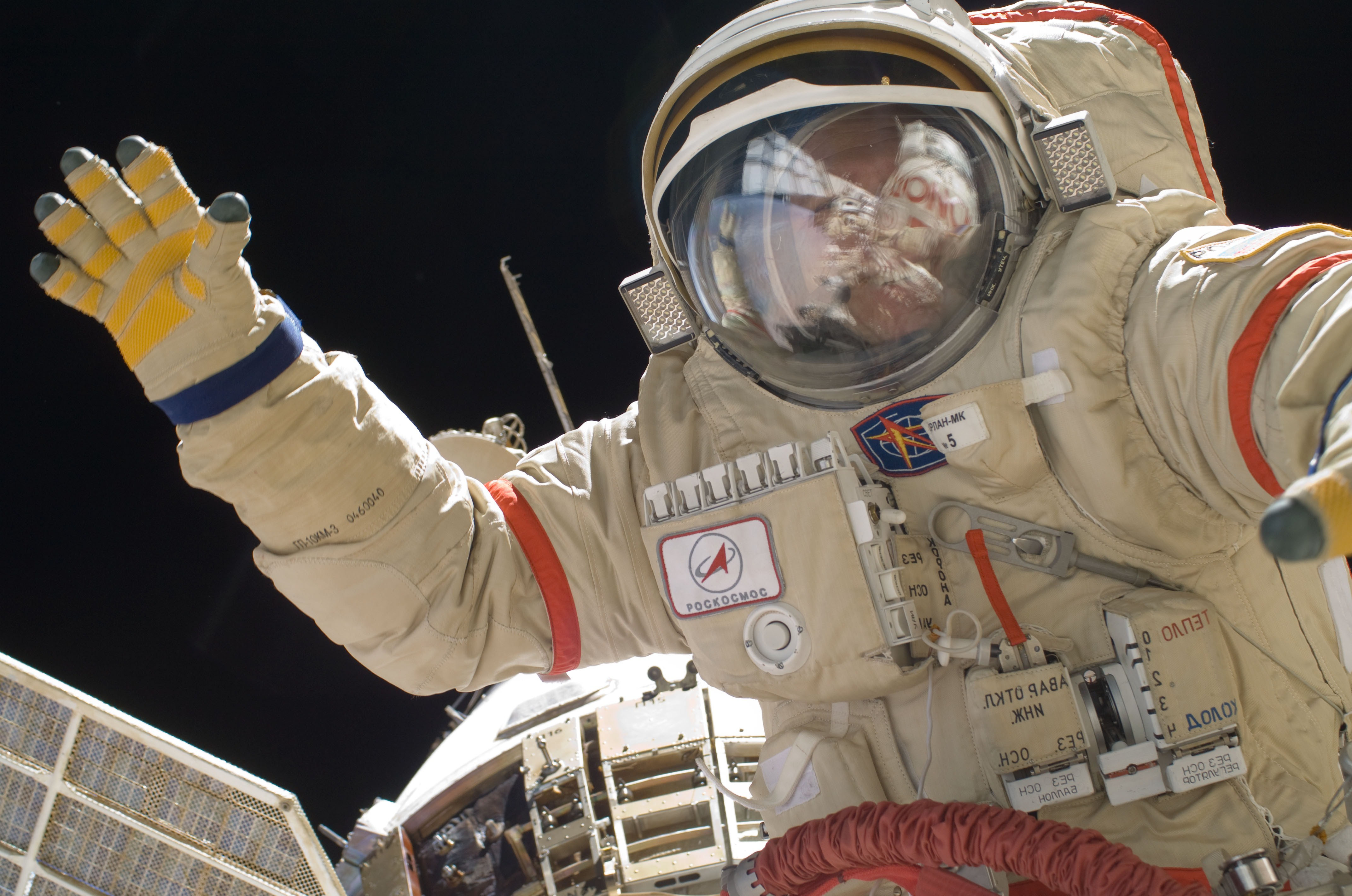 Russian cosmonauts Oleg Kotov and Maxim Suraev (out of frame), both Expedition 22 flight engineers, participate in a session of extravehicular activity (EVA) as maintenance and construction continue on the International Space Station. During the spacewalk, Kotov and Suraev prepared the Mini-Research Module 2 (MRM2), known as Poisk, for future Russian vehicle dockings. Suraev and NASA astronaut Jeffrey Williams, commander, will be the first to use the new docking port when they relocate their Soyuz TMA-16 spacecraft from the aft port of the Zvezda Service Module on Jan. 21.